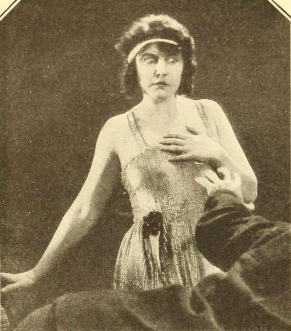 Still from the American silent drama film The Idol of the North (1921) with Dorothy Dalton, on page 54 of the June 1921 Photoplay magazine.